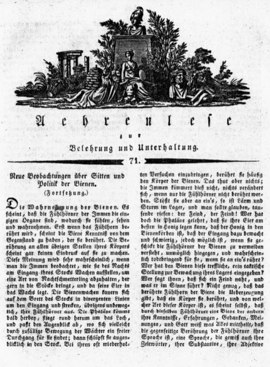 Title page of Aehrenlese, a supplement to Pressburger Zeitung from 19th century.